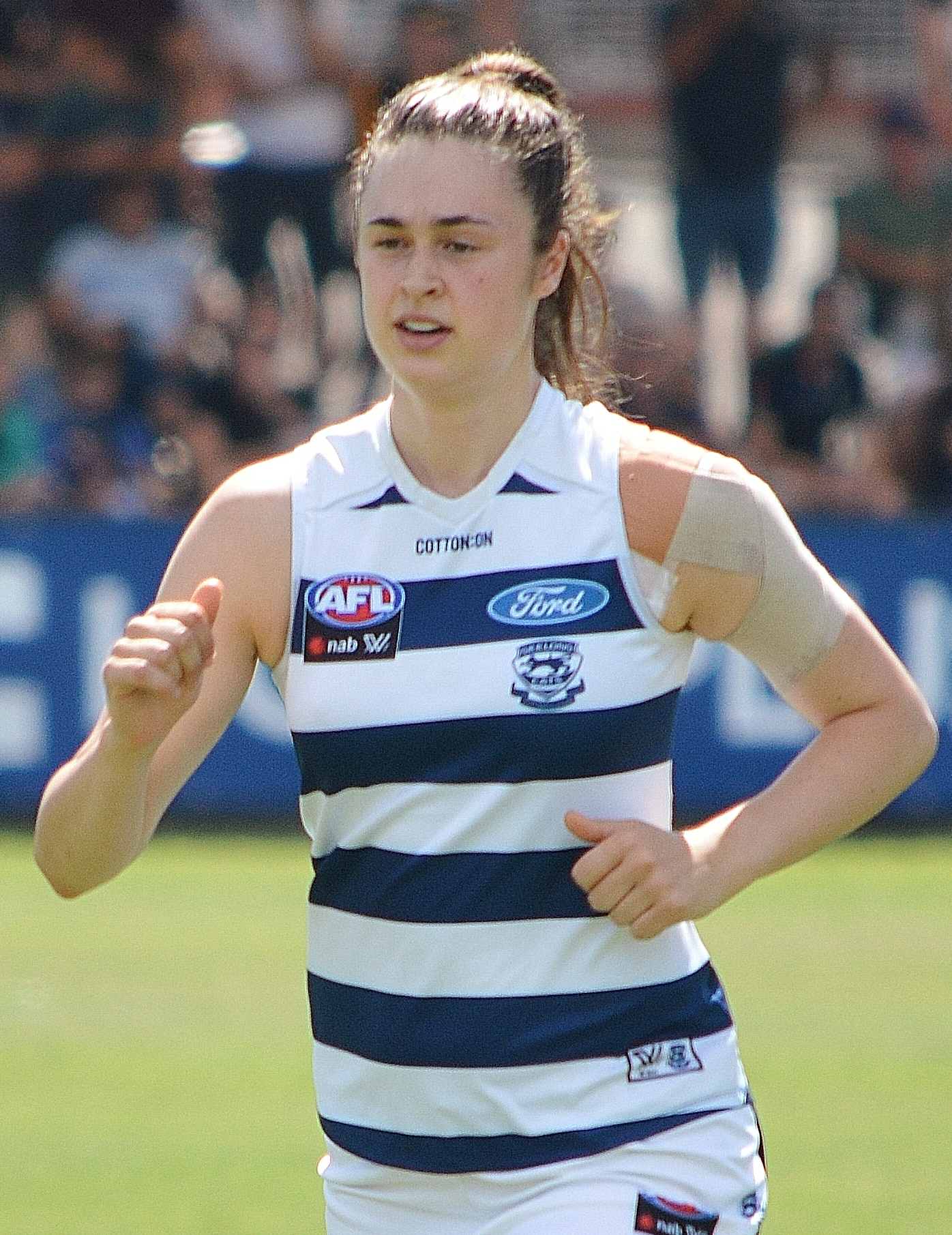 Millie Brown with Geelong in the round 4 2020 AFLW match against Richmond at Queen Elizabeth Oval in Bendigo.